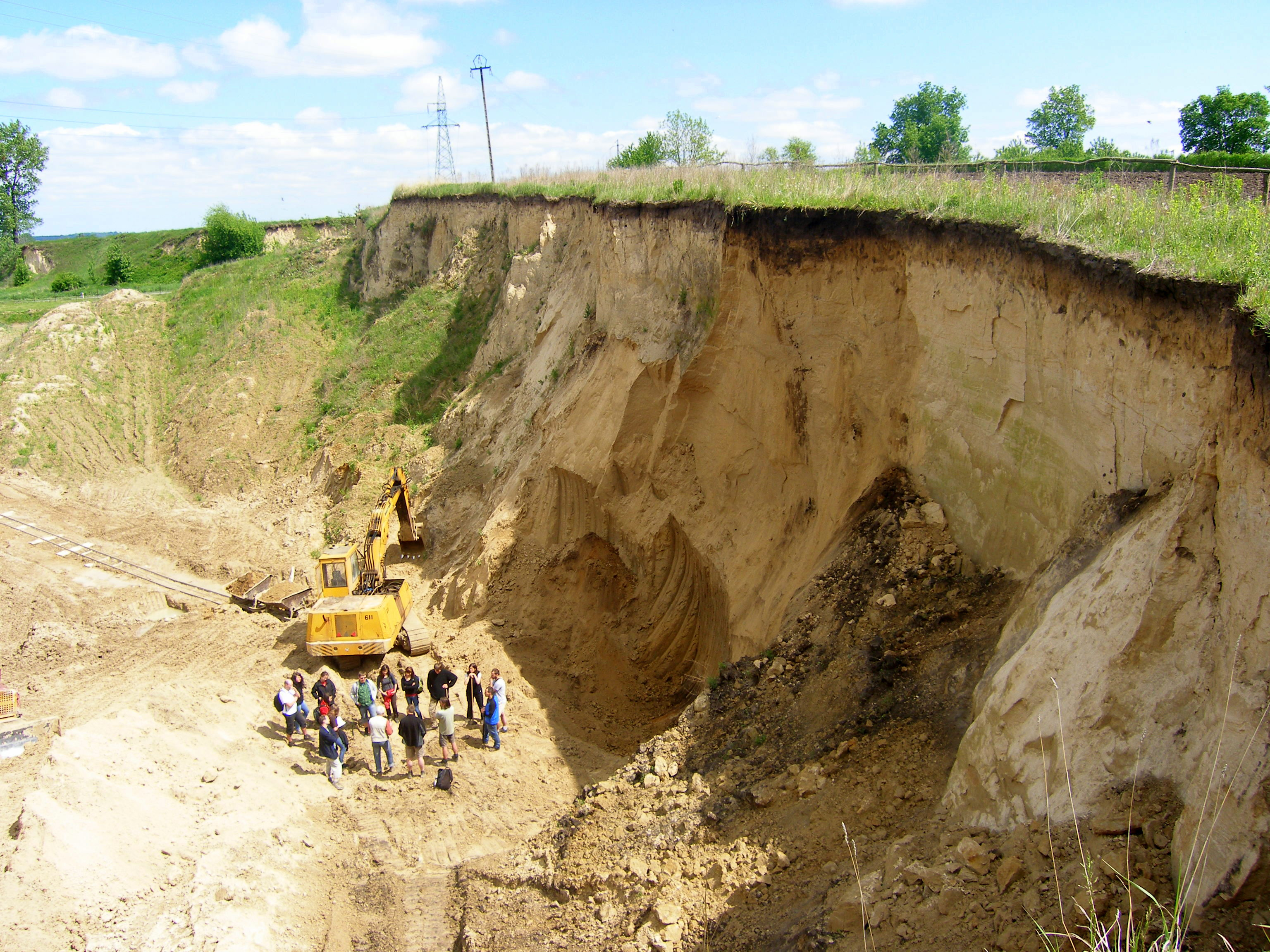 Tyszowce loess section in eastern Poland